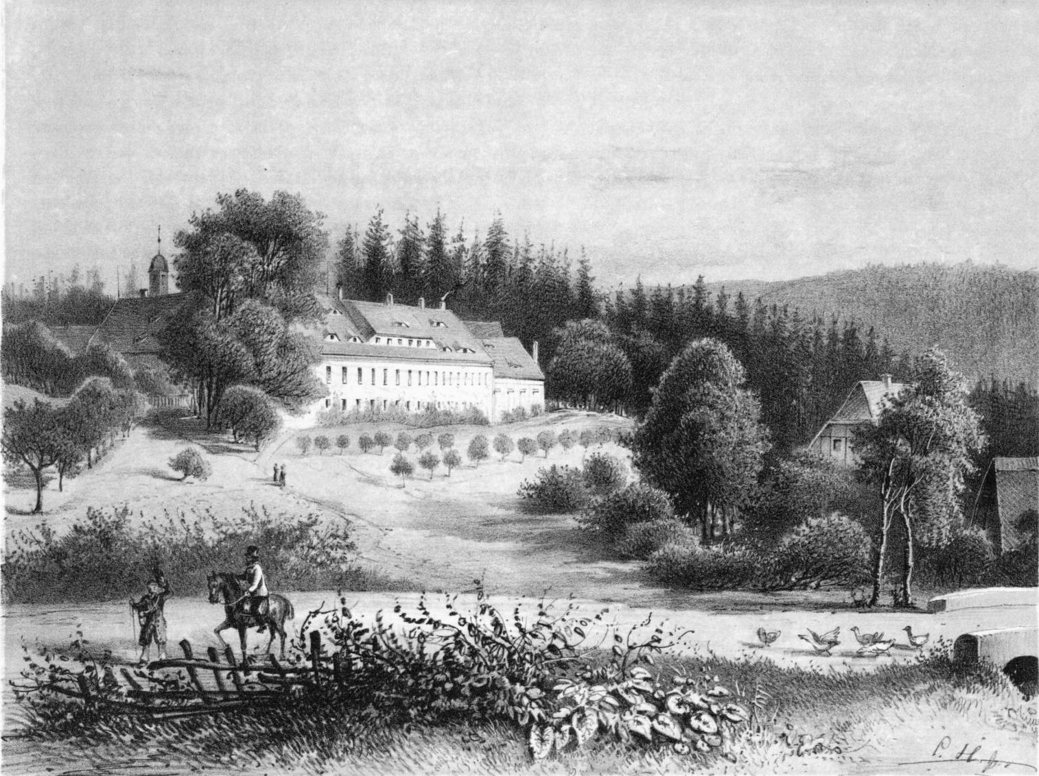 manor house Dittersdorf